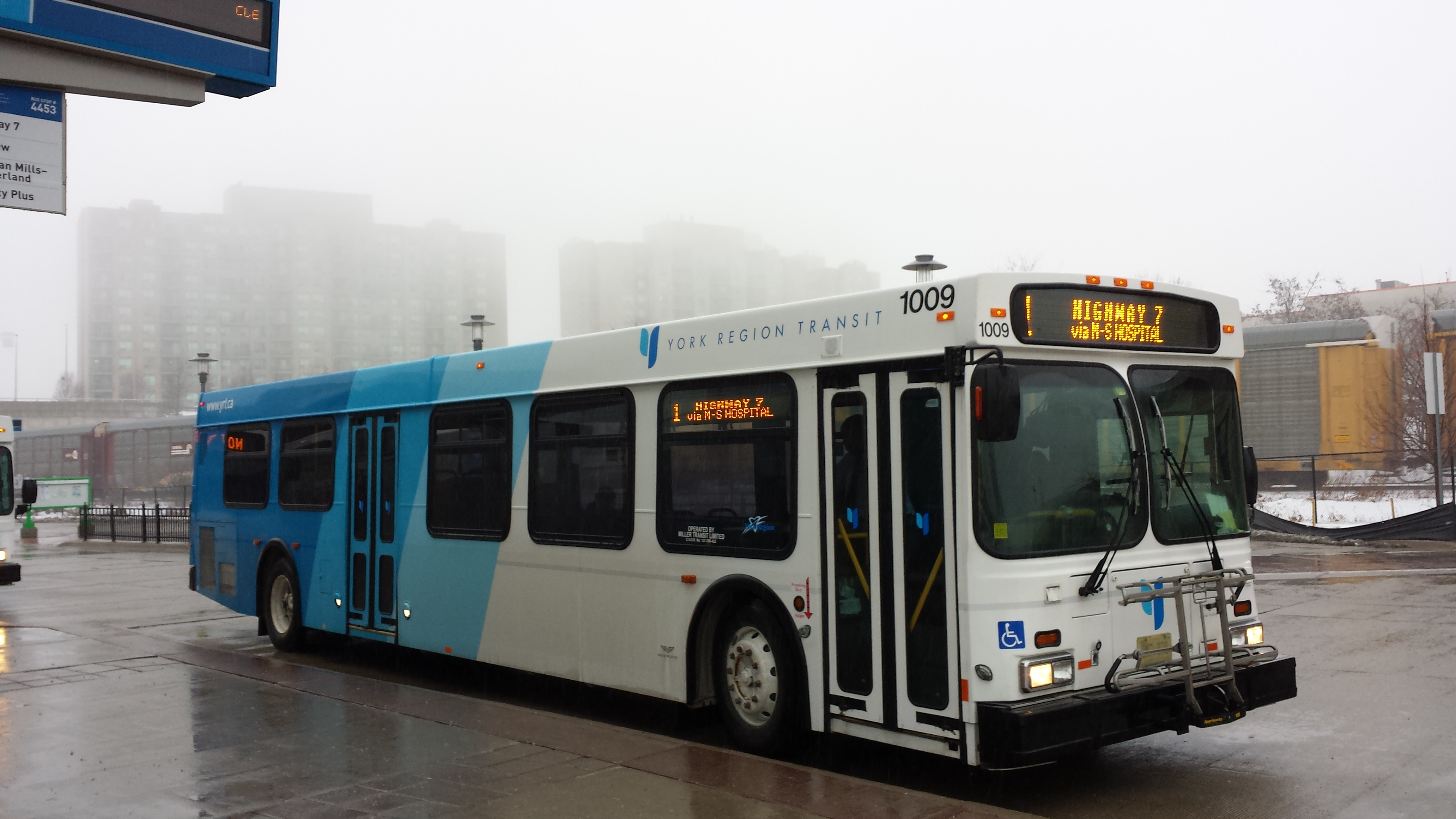 York Region Transit NFL D40LF #1009